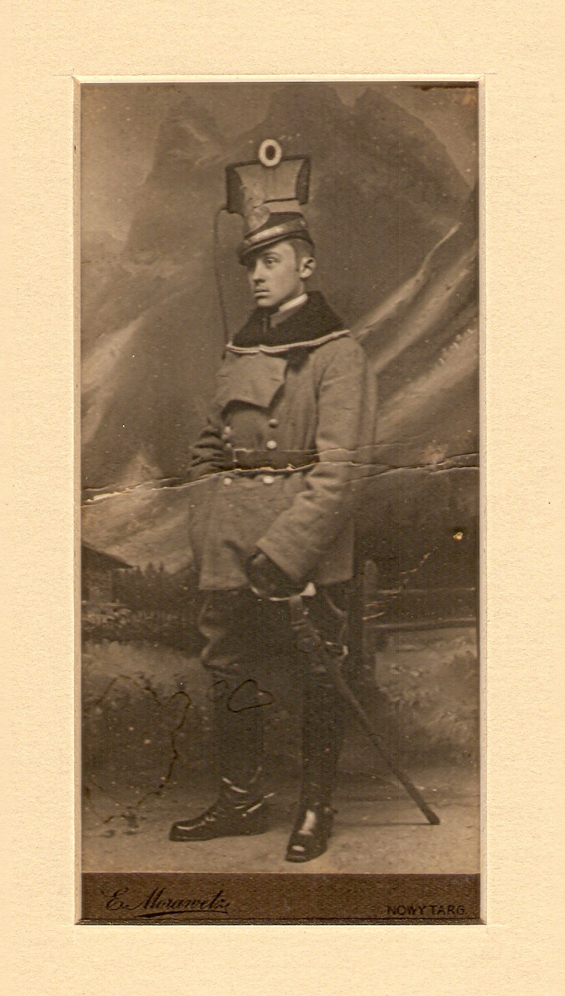 Emil Gruszecki at the age of 15